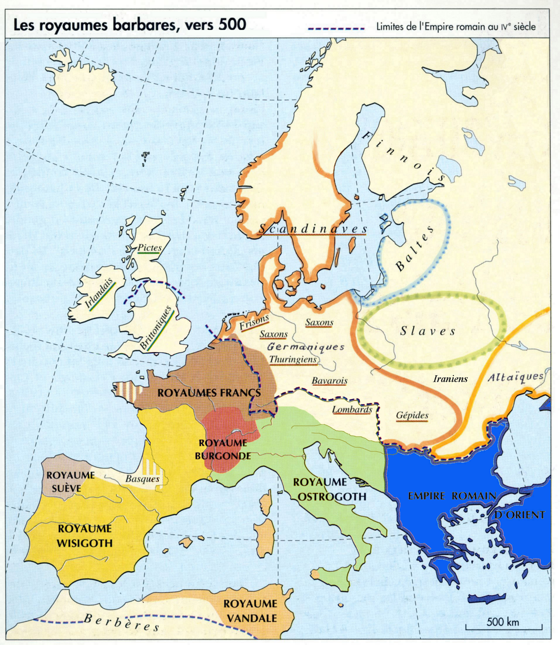 Historical map of Europe, french language, year 500